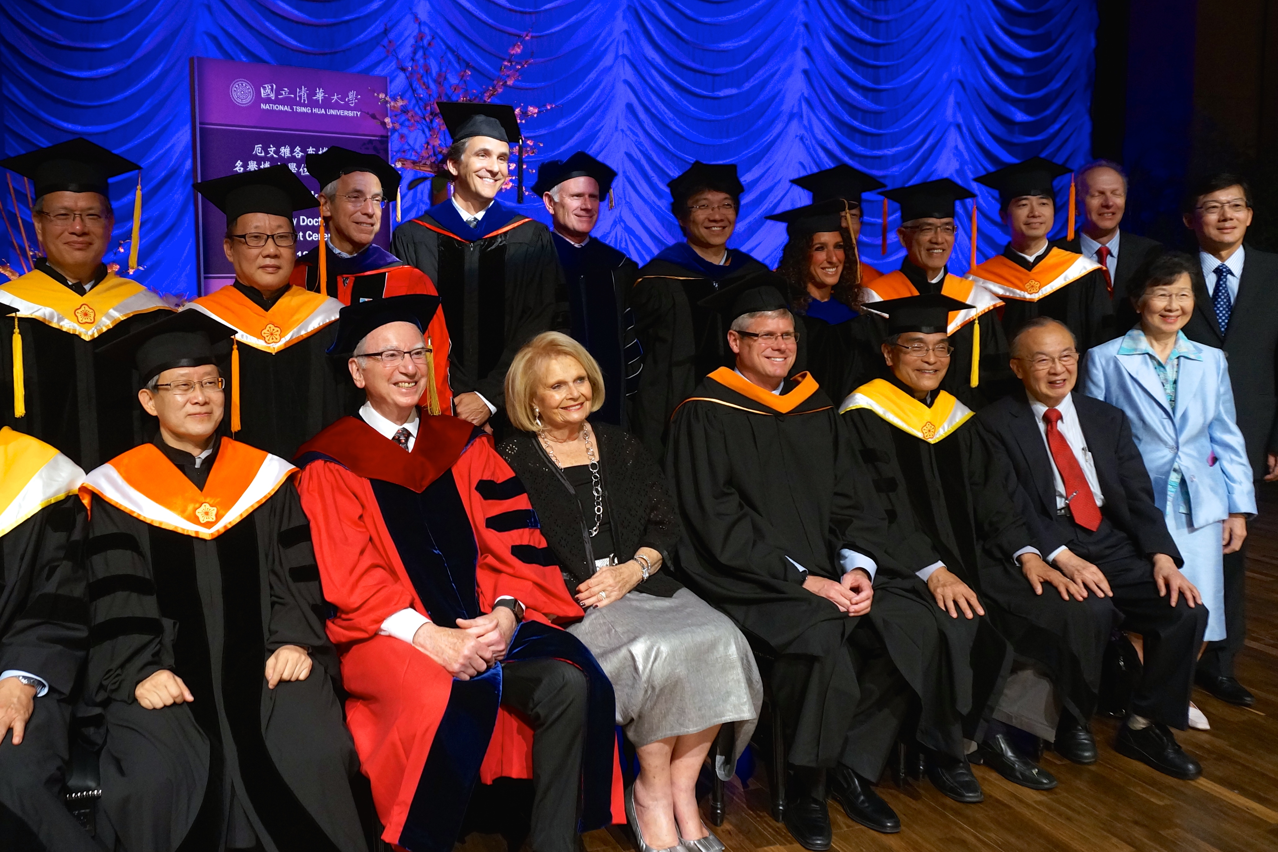 Irwin Jacobs receiving honorary doctorate of engineering from NTHU